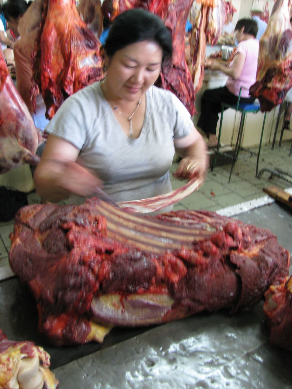 Horse meat in mongolia